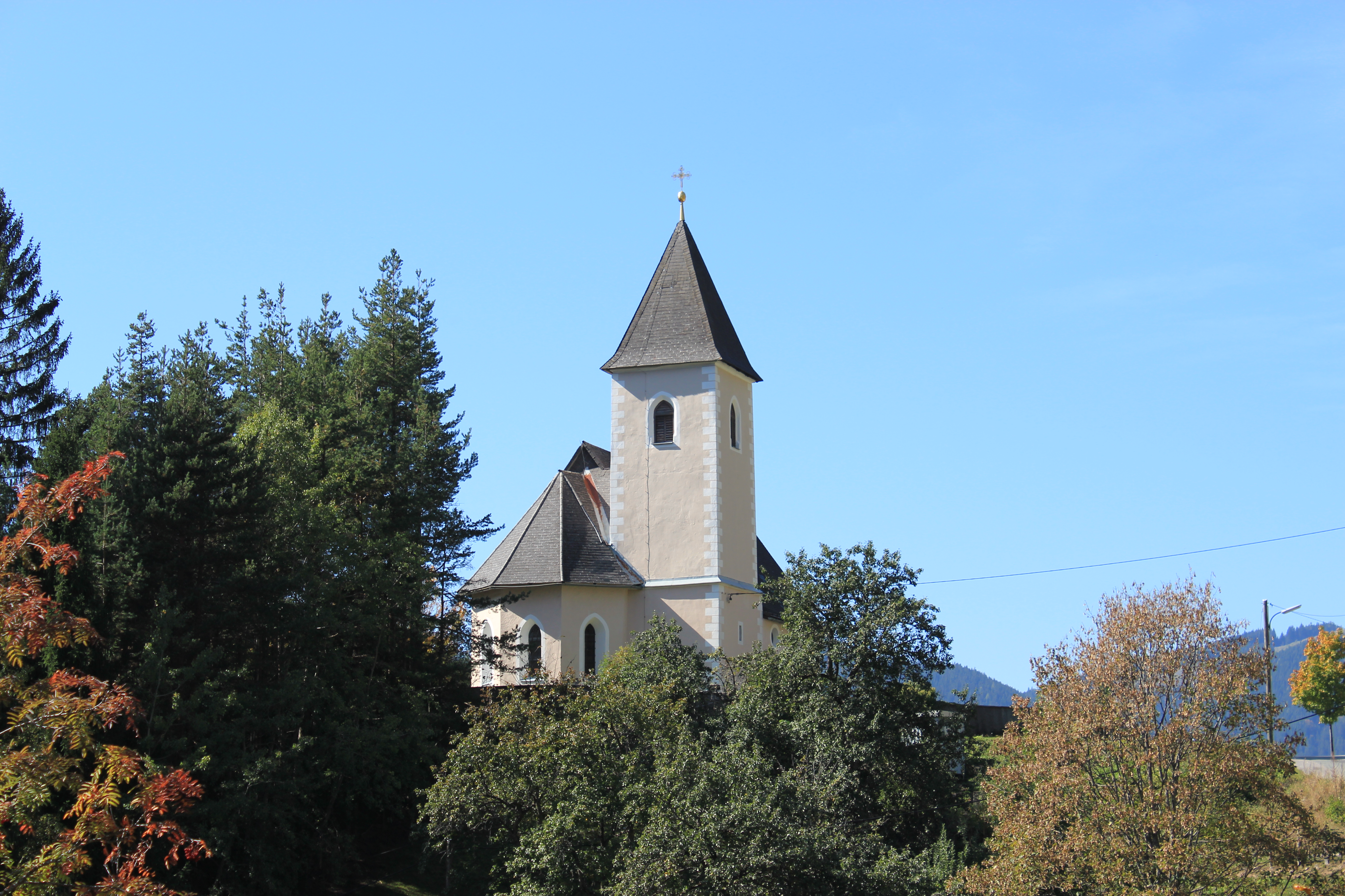 Parish church Saint Heinrich in the community of Bad Bleiberg